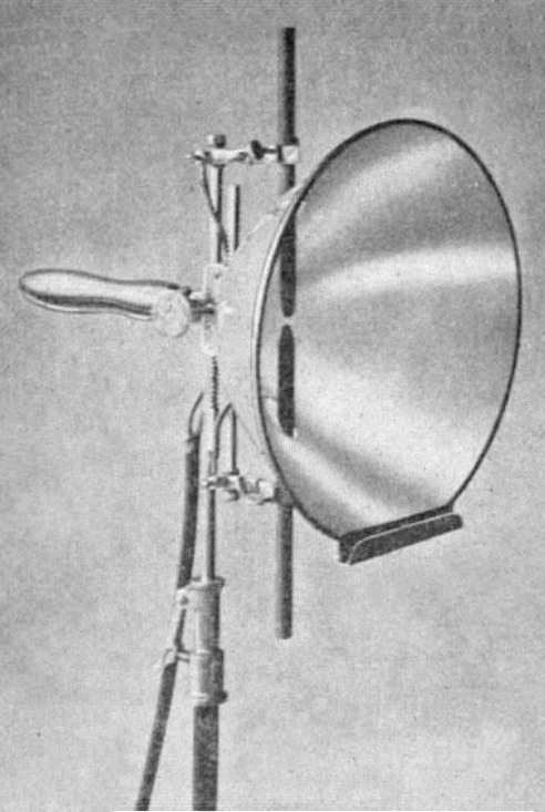 A medical carbon arc lamp from around 1909. It consists of two carbon rod electrodes supplied with mains current creating an electric arc between them, which emitted a brilliant white light. Arc light was rich in ultraviolet light and was used to treat various skin conditions.